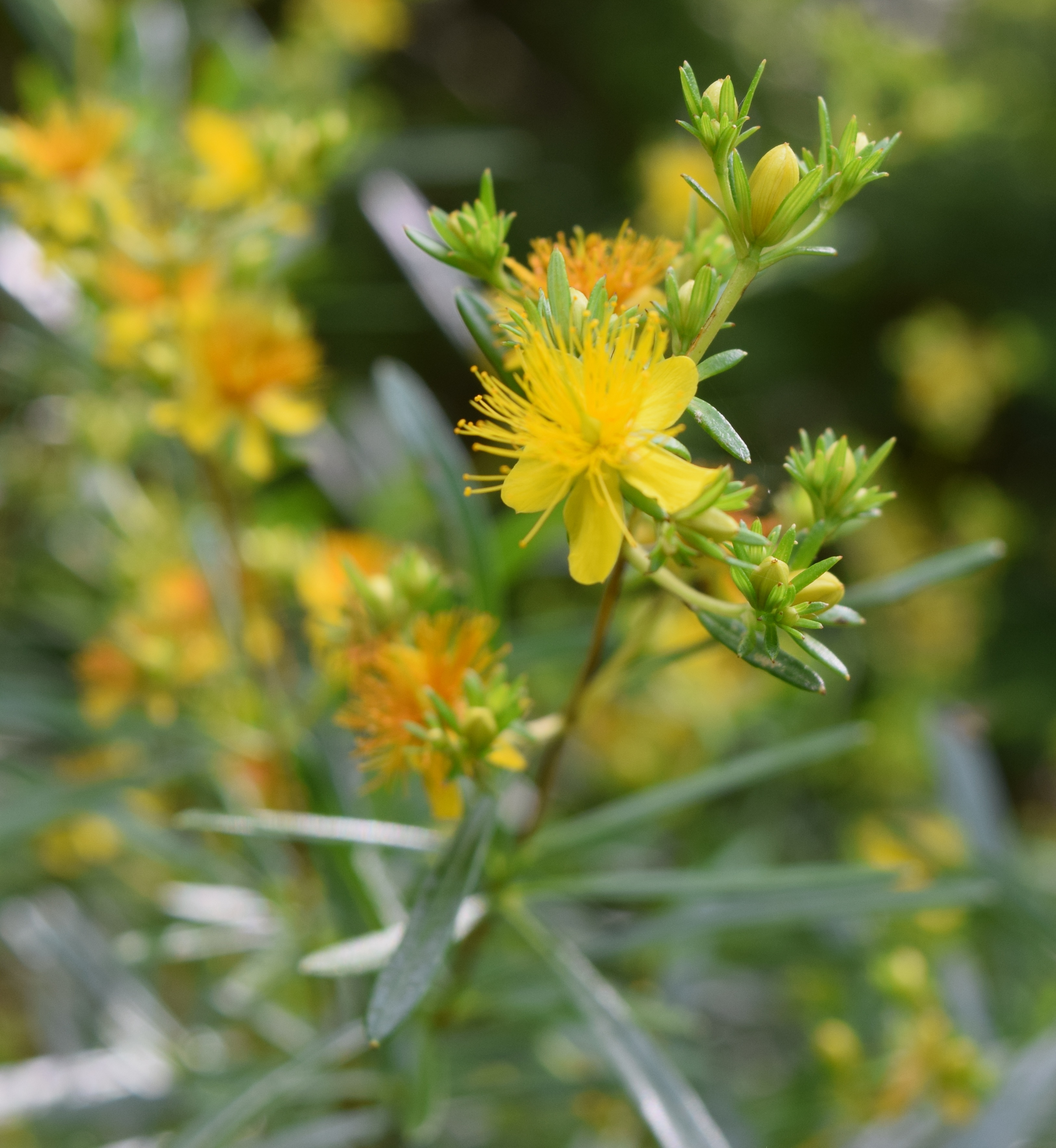 Flowering branch of the shrub Hypericum densiflorum var. interior (probably better recognized as a distinct species, Hypericum interior) photographed in Cambell County, Tennessee, on June 19, 2019.